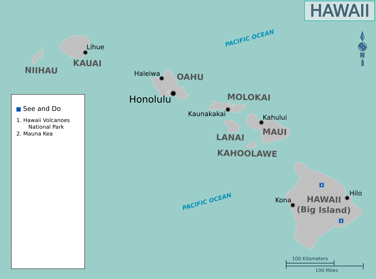 Map of Hawaii